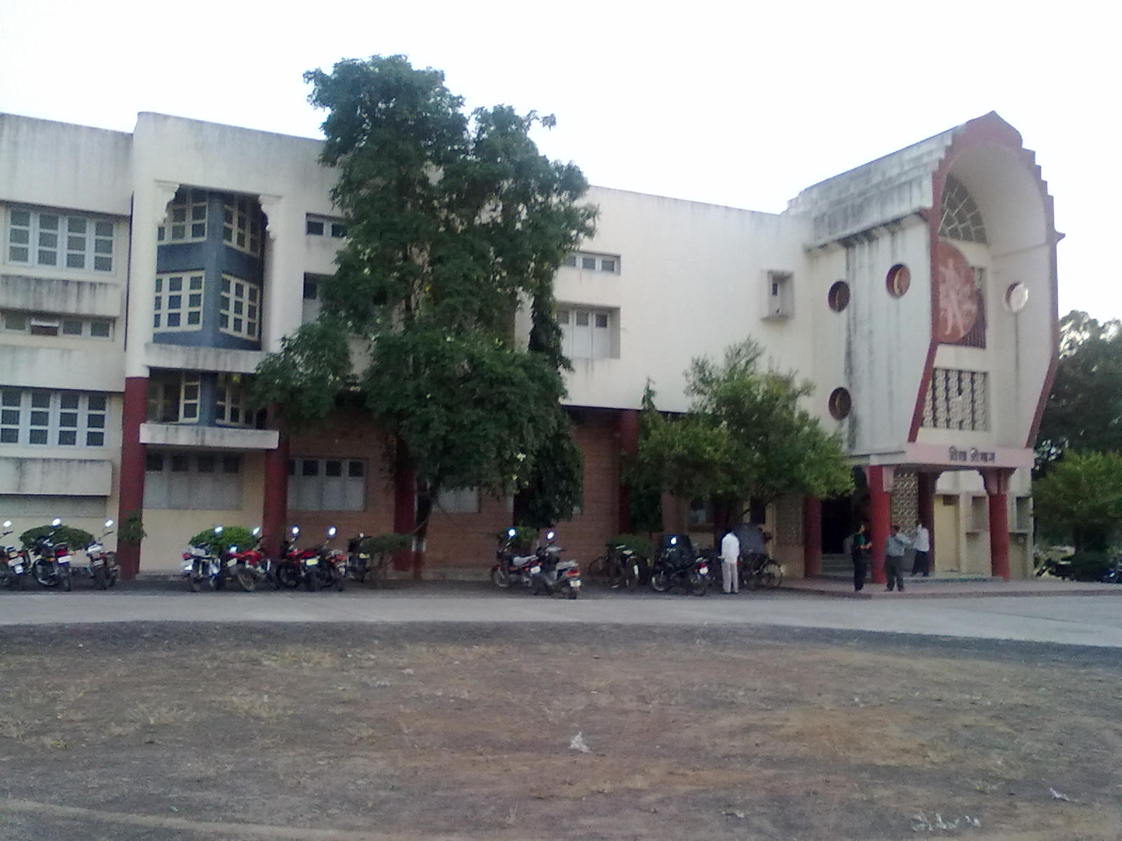 Main Building od SSGMCE